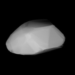 3D convex shape model of 632 Pyrrha, computed using light curve inversion techniques. J. Hanuš, J. Ďurech, M. Brož, B. D. Warner (June 2011). "A study of asteroid pole-latitude distribution based on an extended set of shape models derived by the lightcurve inversion method". Astronomy and Astrophysics 530: A134. ISSN 0004-6361. arXiv